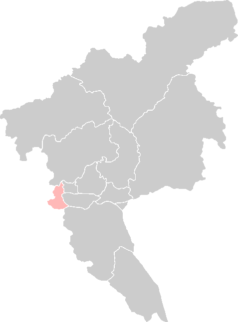 A Blank Map of Guangzhou Map